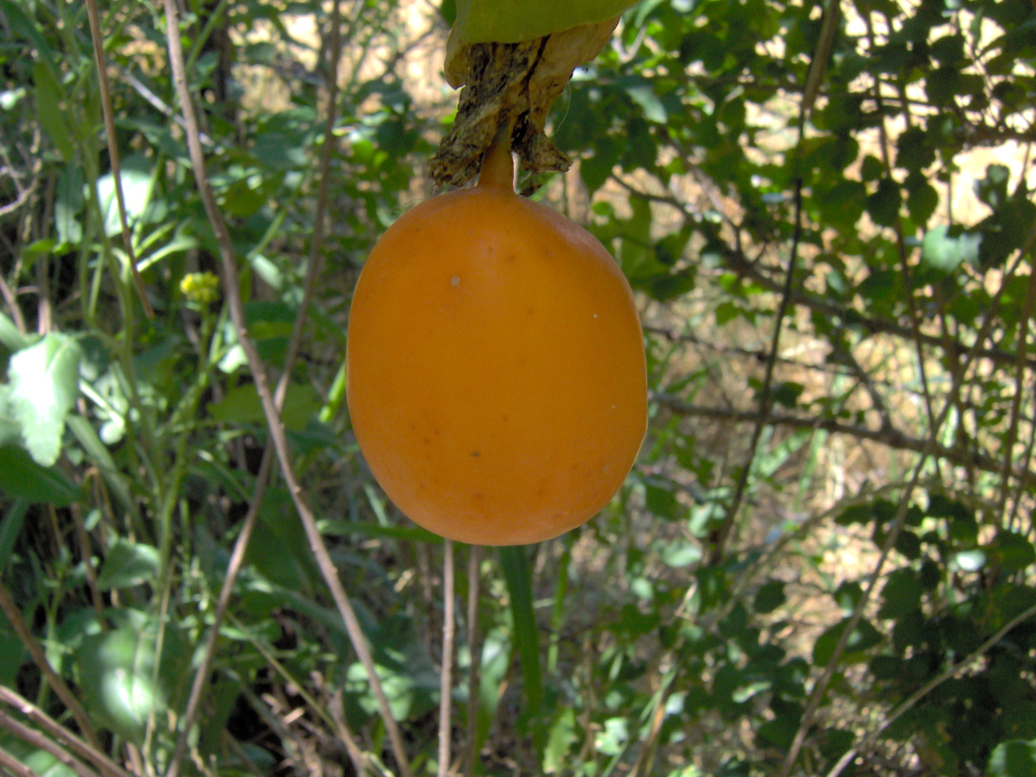 A fruit of Passiflora ligularis